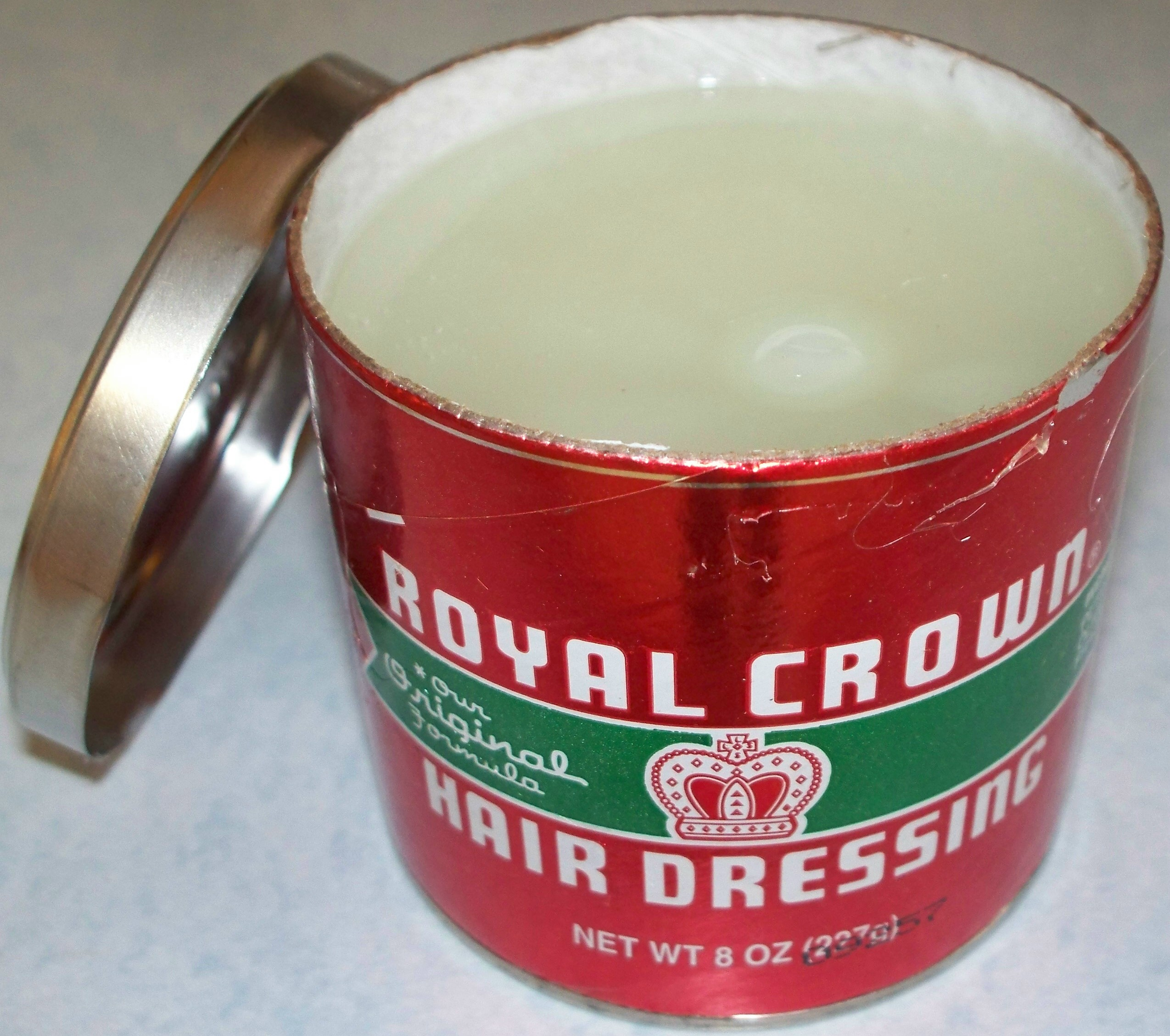 Can of Pomade